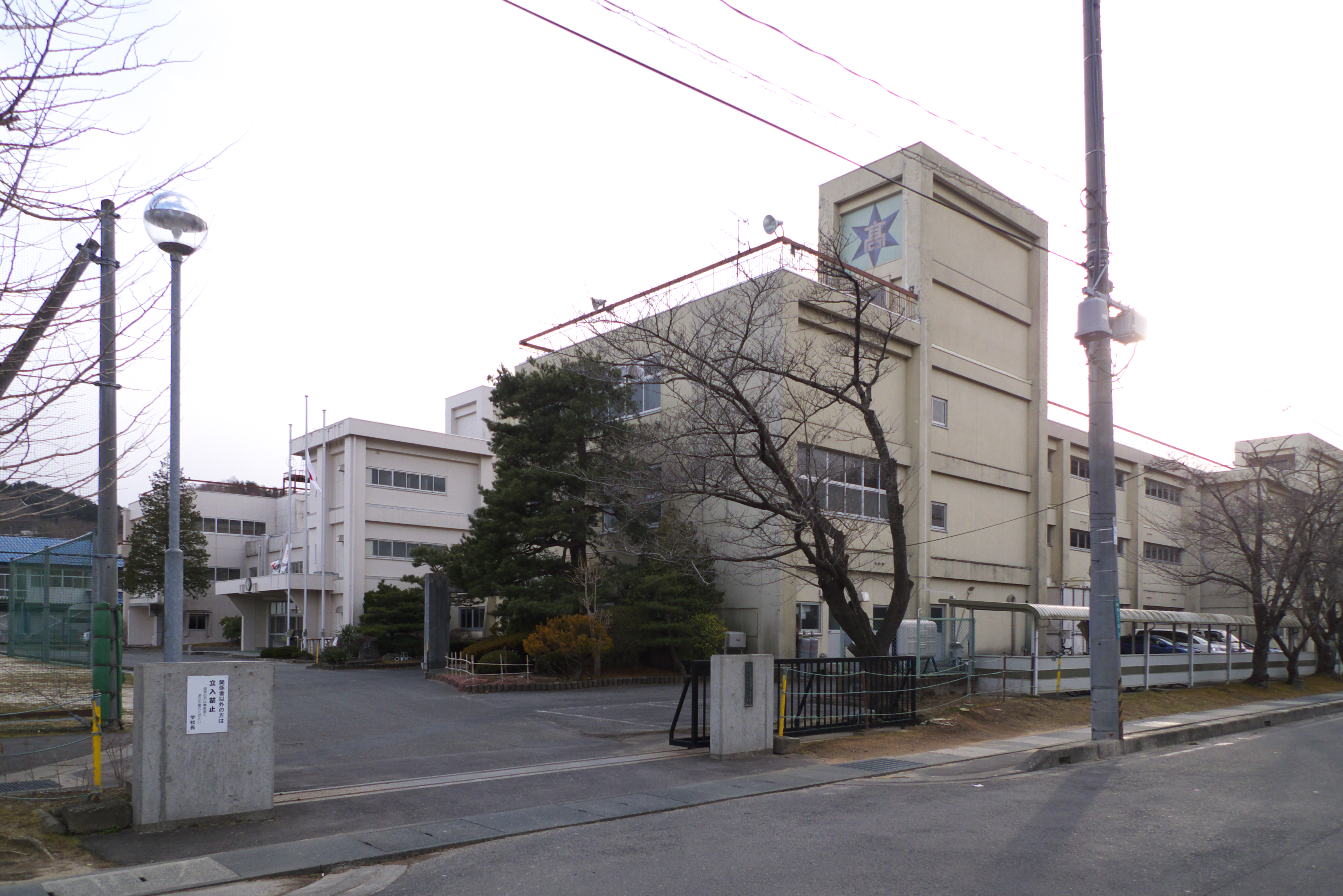 Iwate Prefectural Miyako Fisherise High School in Miyako City, Iwate Prefecture, Japan